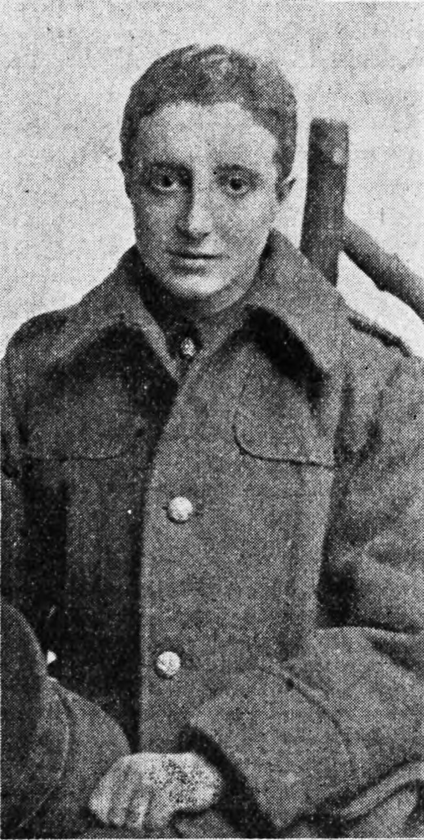 Saunders Lewis, poet, dramatist and activist